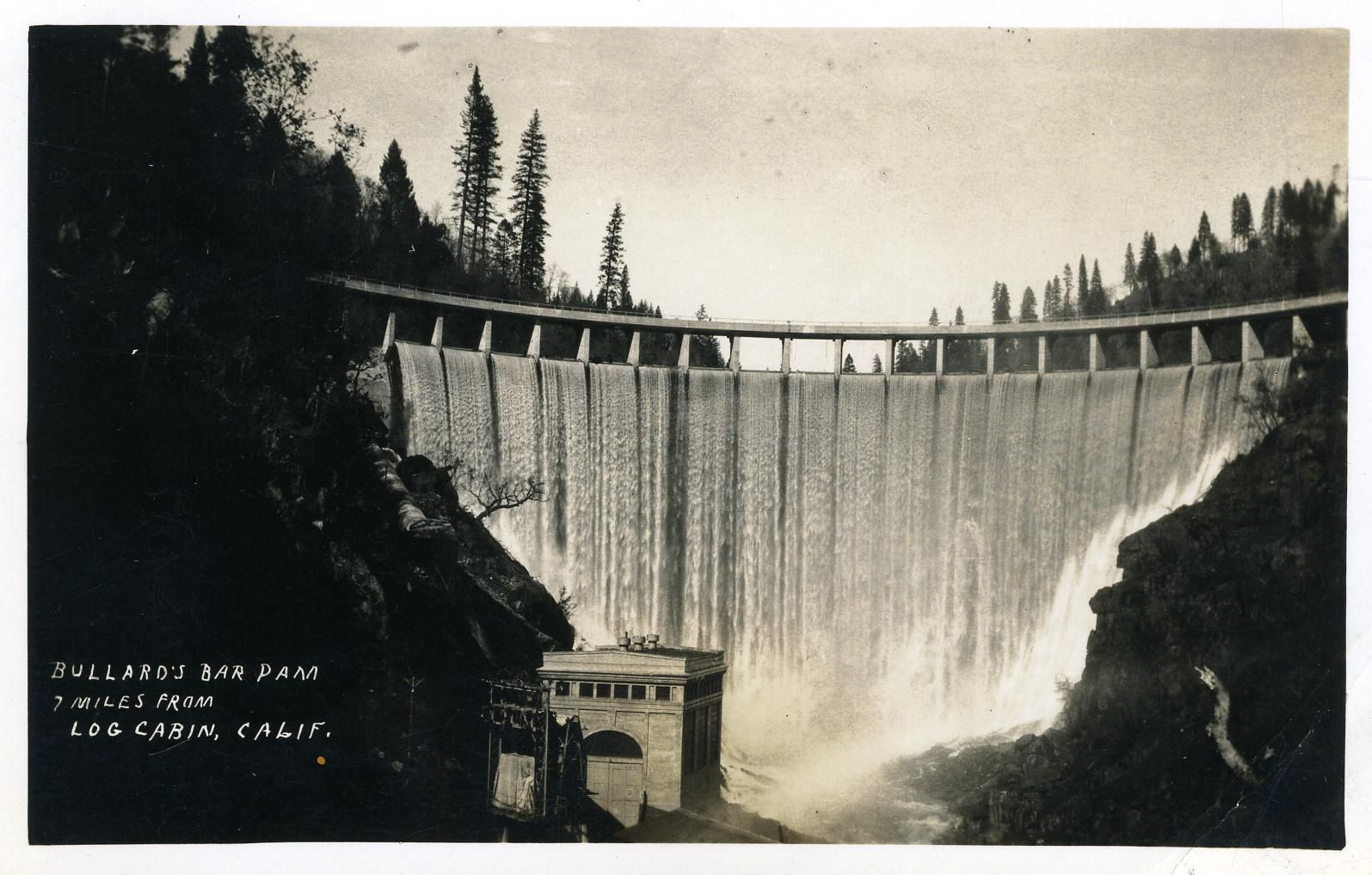 The original arch dam at Bullards Bar, which was submerged when the New Bullards Bar Dam was completed in 1960s. Credited to